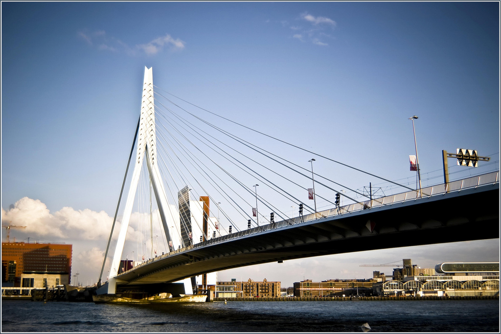 Erasmusbridge Rotterdam, The Netherlands